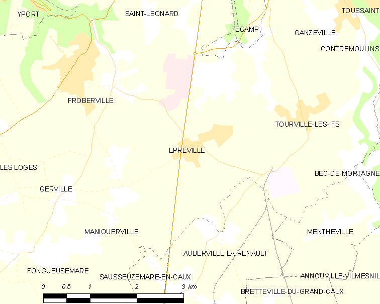 Map of French municipality Épreville